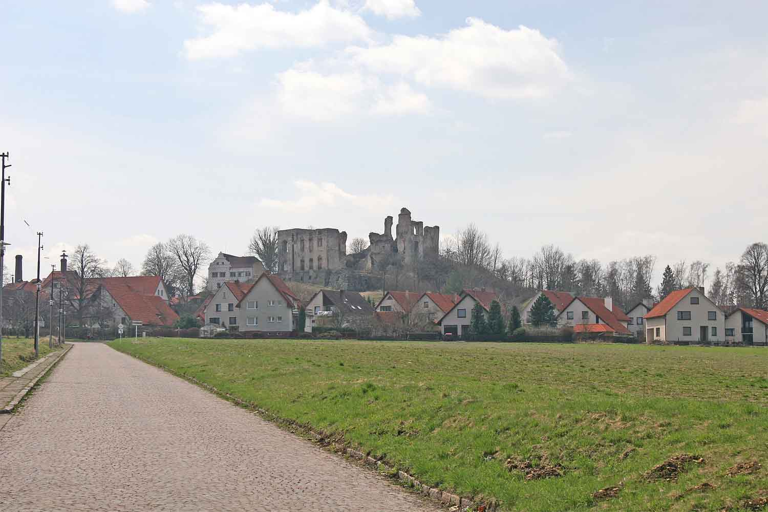 Košumberk Castle ruin